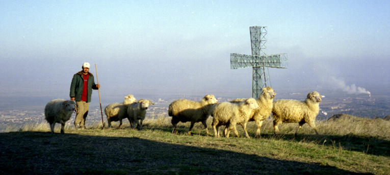 Herdsman walking with sheeps in the hills of Rustavi